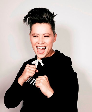 Jennifer Cardini at the SHARE Conference 2011 (festival in Belgrade, Serbia)